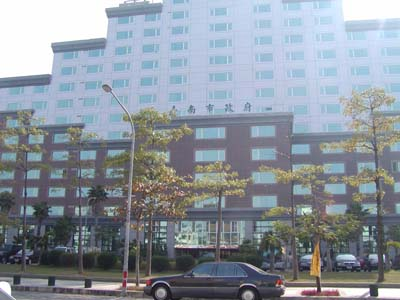 Yonghua Civic Center, Tainan City Government.